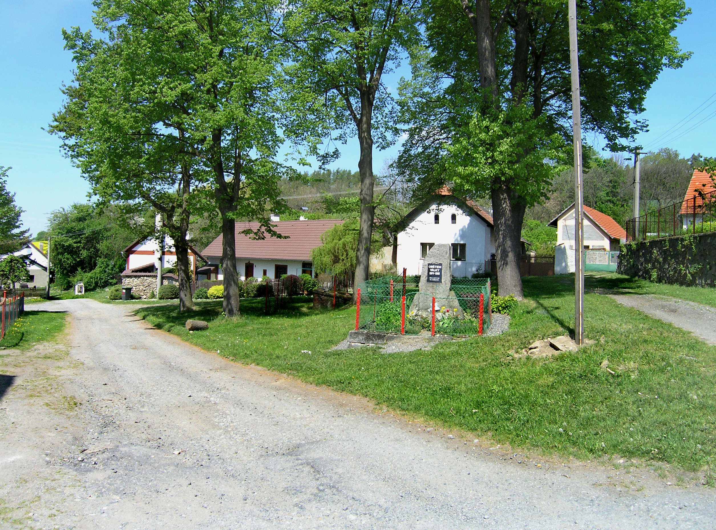 Common in Velké Heřmanice, part of Heřmaničky village, Czech Republic